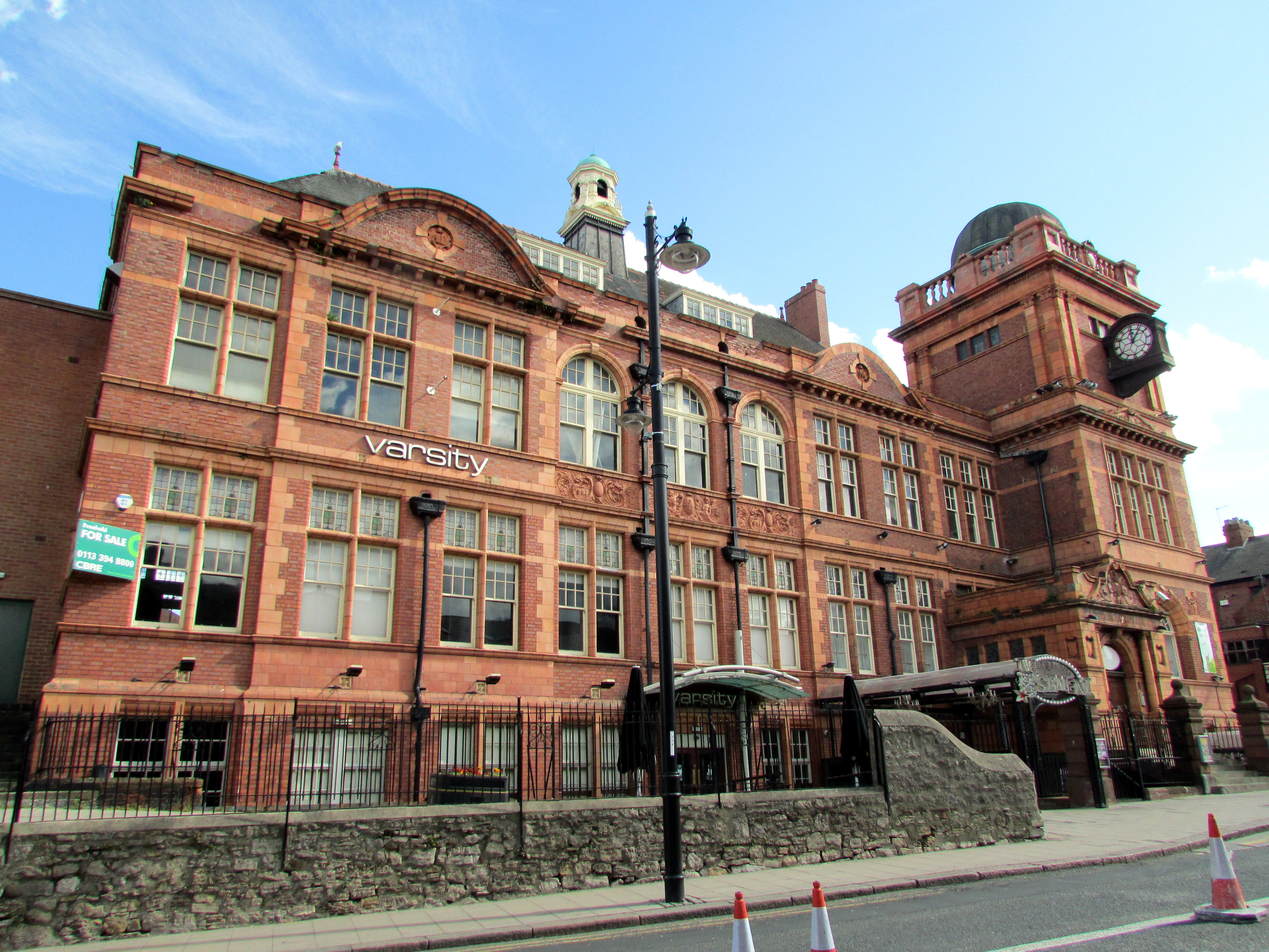 Green Terrace, Sunderland. Designed by Potts, Son and Henning and completed 1899-1901. Now converted to nightclubs.